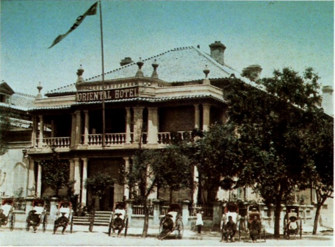 Photo of the Oriental Hotel, Kobe